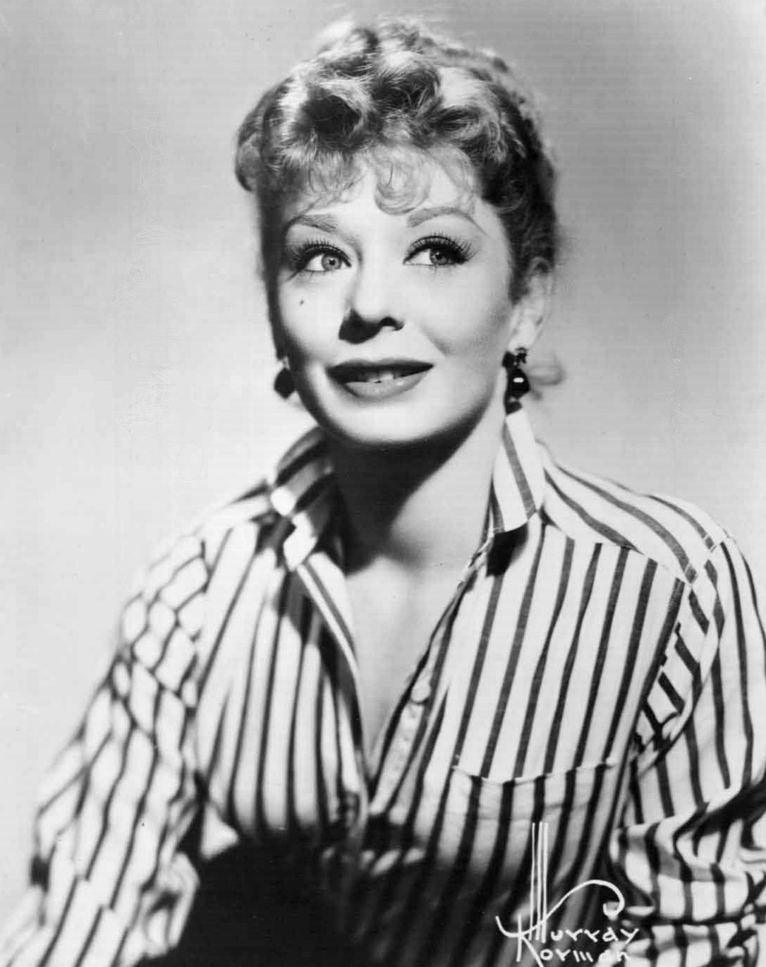 Photo of dancer/actress Gwen Verdon from an appearance on Goodyear Television Playhouse.